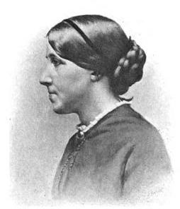 Image of American author Louisa May Alcott, from a photo taken just previous to her going to Washington as a hospital nurse, in 1862. From Louisa May Alcott: Her Life, Letters, and Journals by Ednah Dow Cheney. Boston: Little, Brown, and Company, 1919.